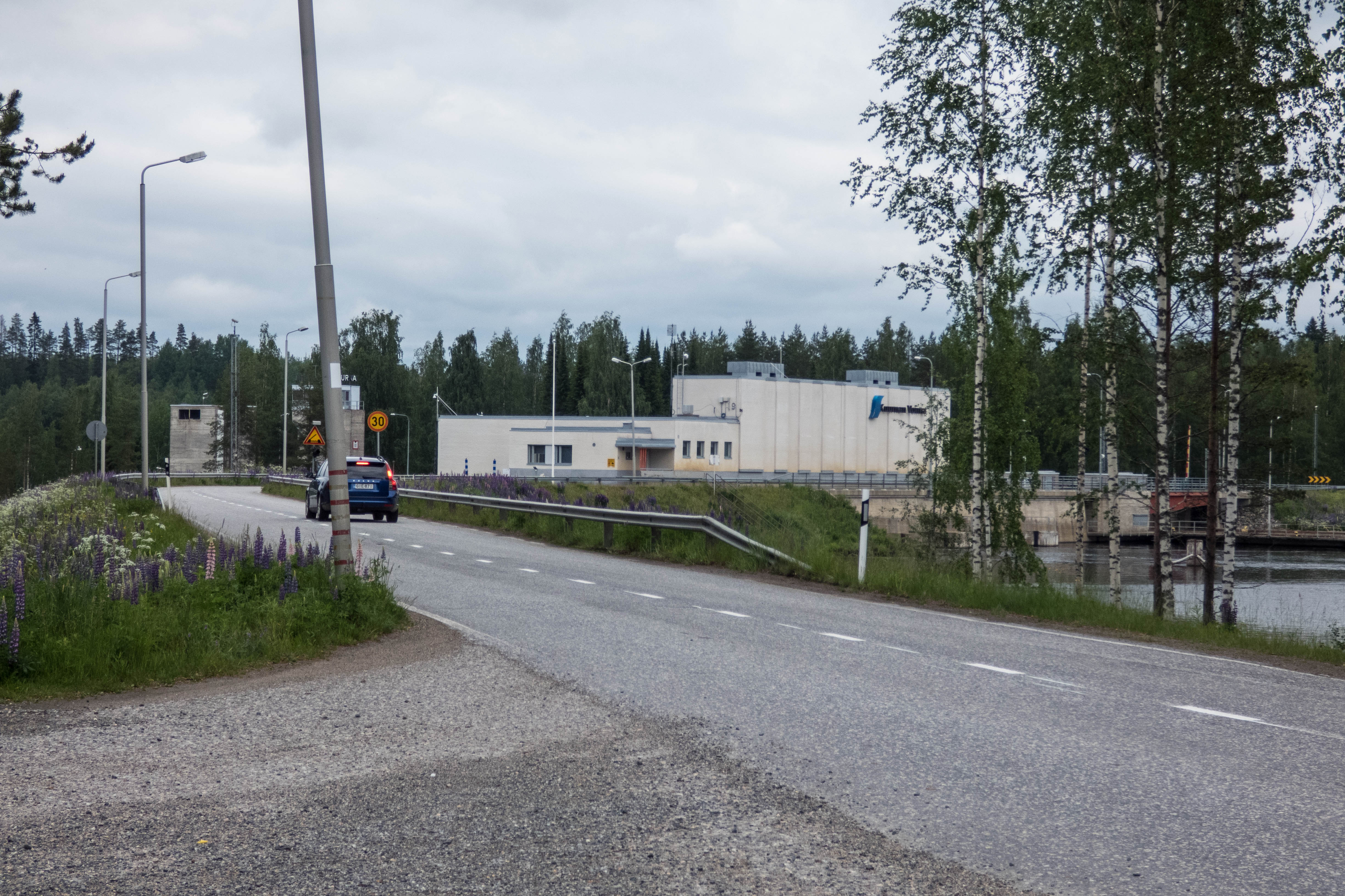 Hydropower plant